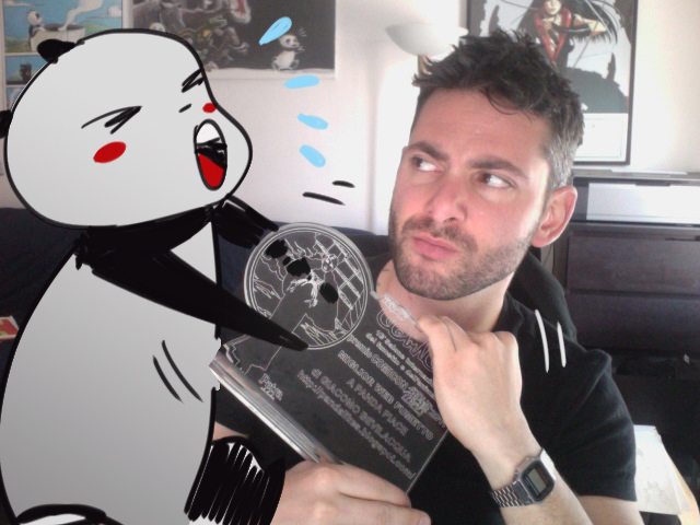 here's Giacomo Bevilacqua with is character Panda, fighting for the Attilio Micheluzzi Prize